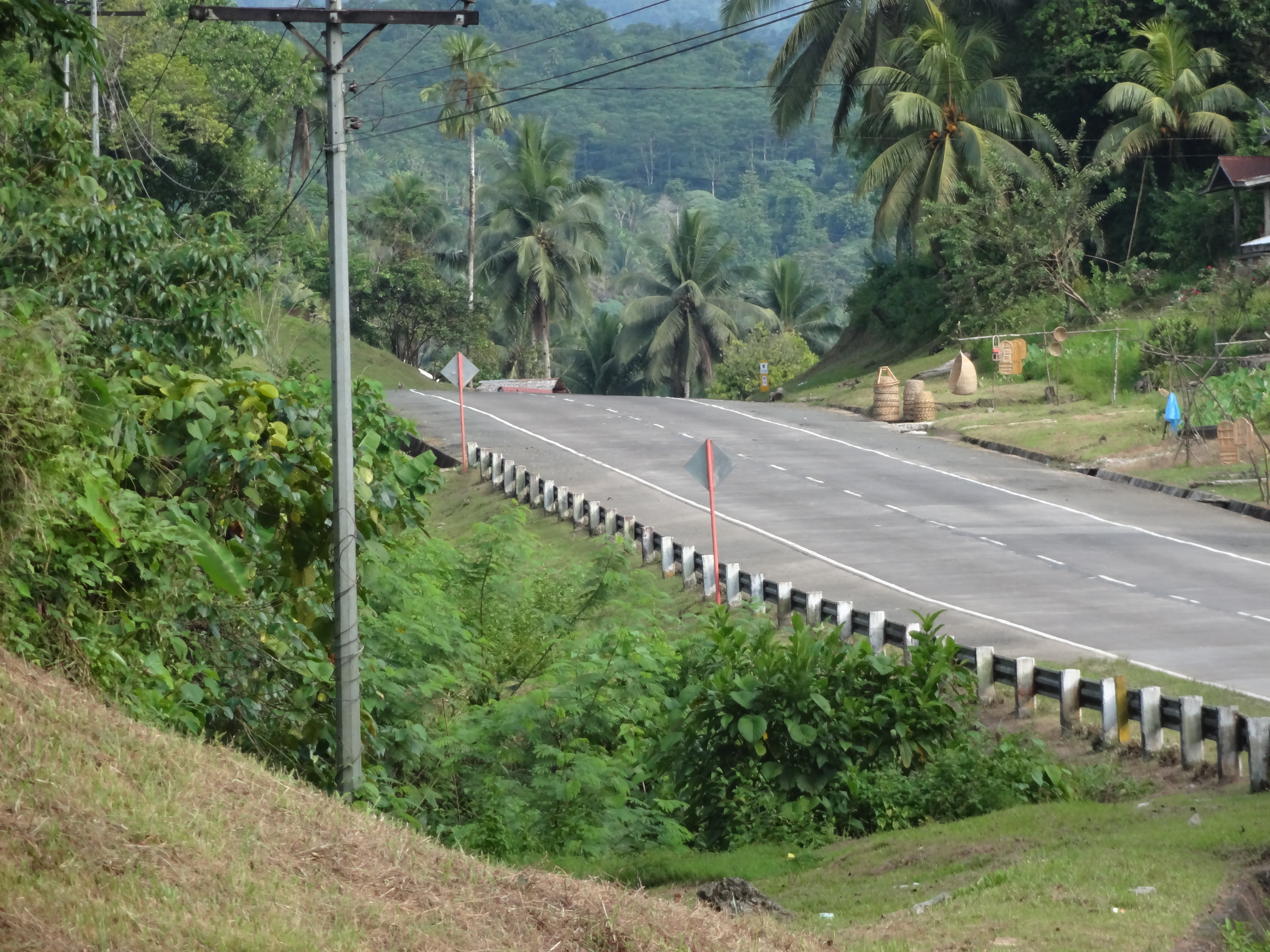 This is my own work. The AH-26 Highway in Trento, Agusan del Sur.